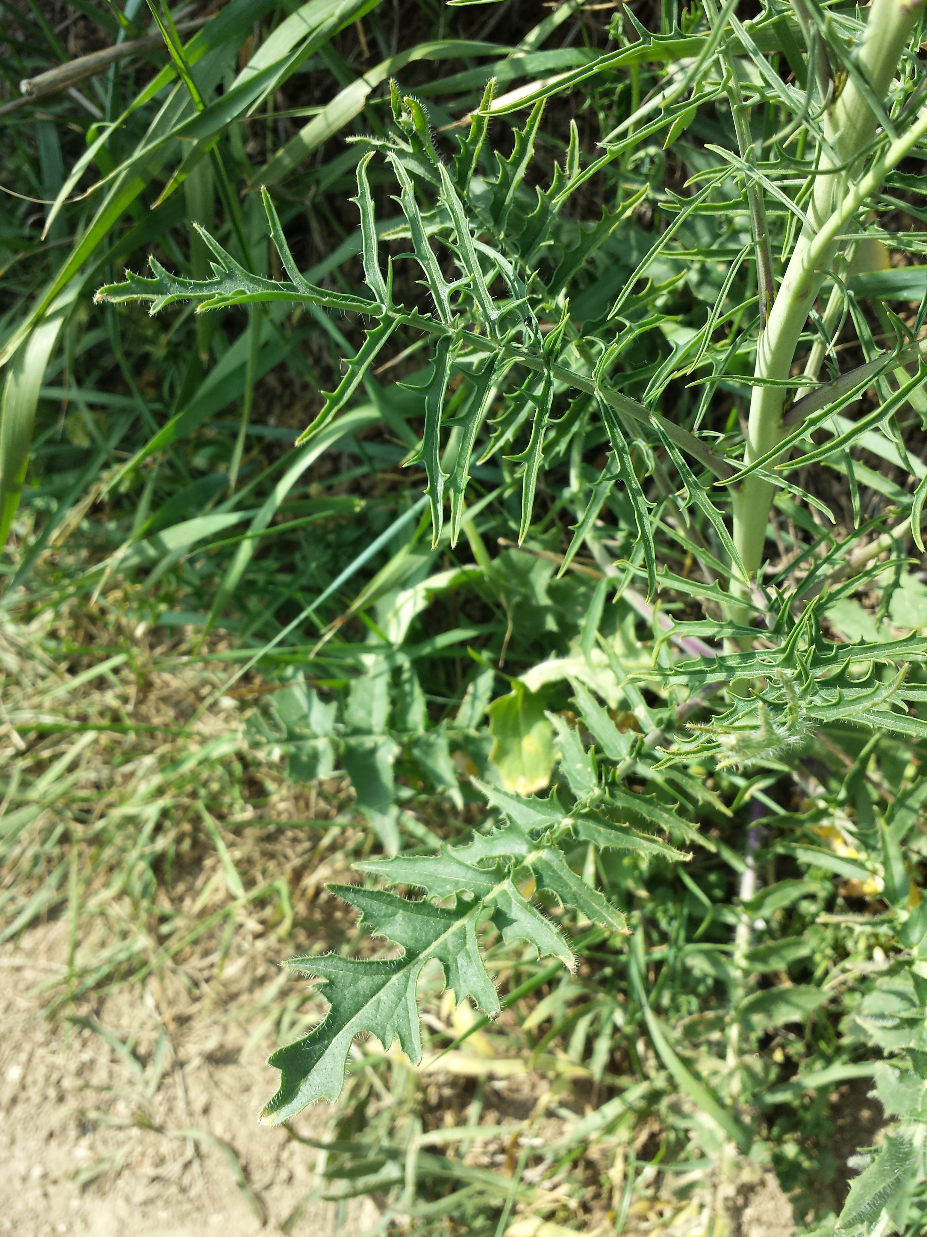 Stem with leaves Taxonym: Sisymbrium altissimum ss Fischer et al. EfÖLS 2008 ISBN 978-3-85474-187-9 Location: next to Kogelsteine, Straning-Grafenberg, district Horn, Lower Austria - ca. 320 m a.s.l. Habitat: slope